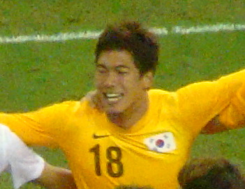 04/08/12 Great Britain v South Korea, Olympic Football, Millennium Stadium, Cardiff, Wales